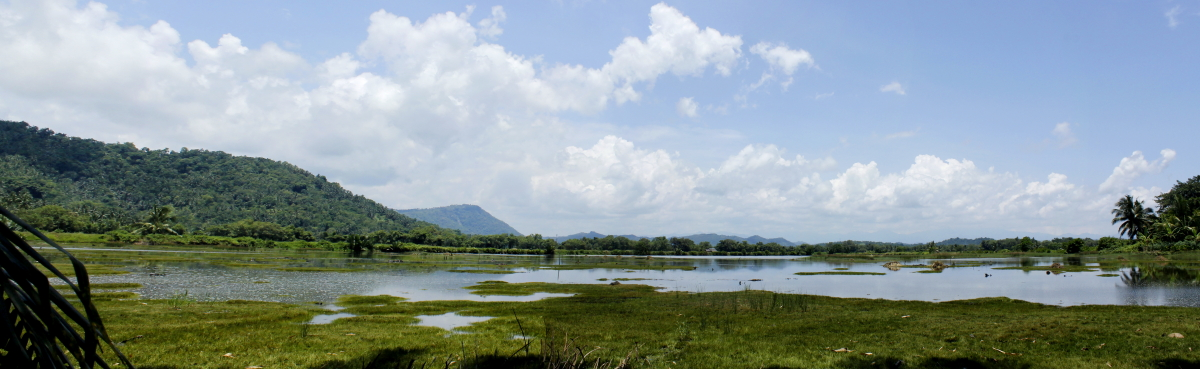 Swamp Batan, Aklan